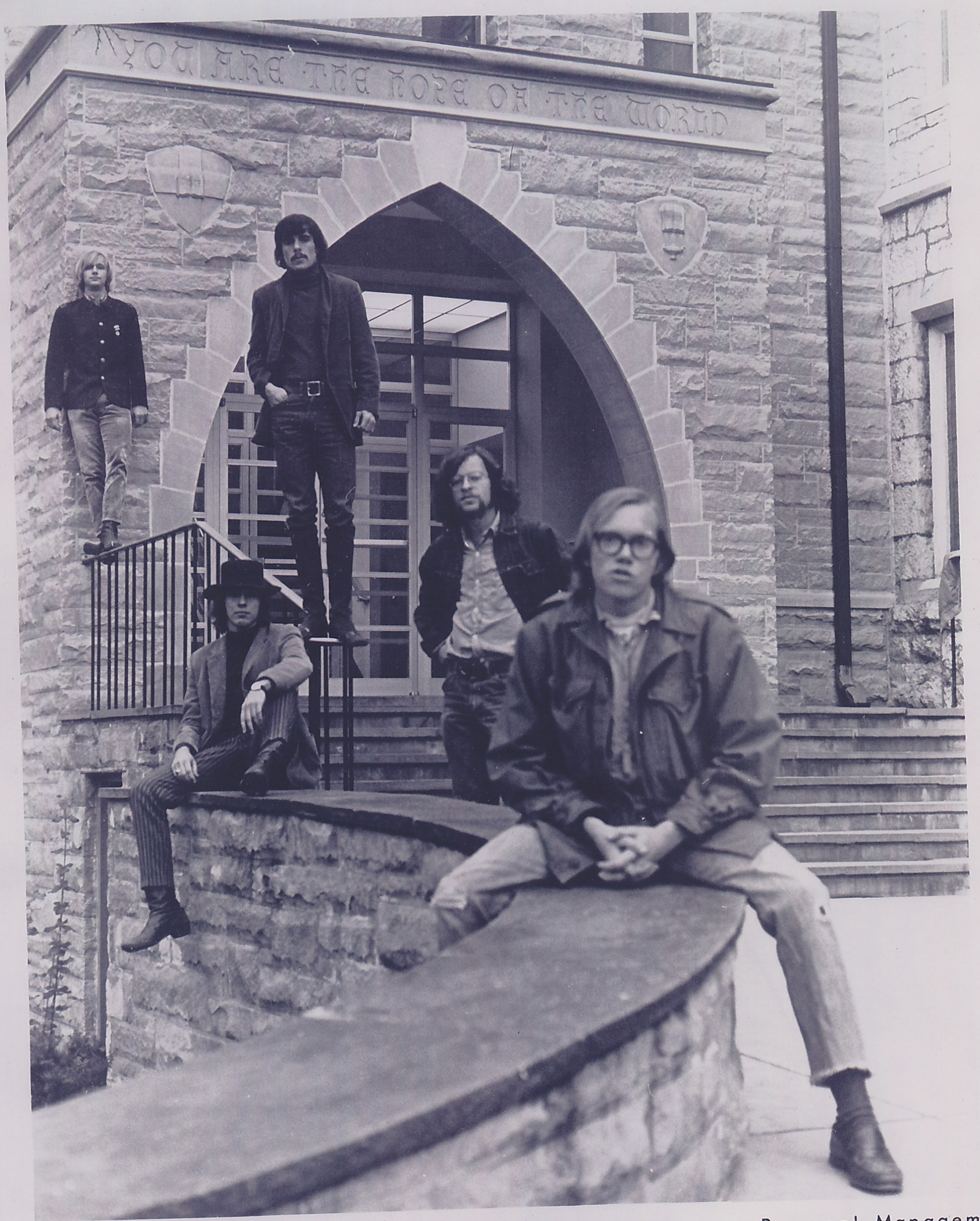 Publicity photo for the group "The Lost and Found", pre-cursor group to Blue Oyster Cult. From left: Peter Haviland, Jeff Hayes, John Trivers, Eric Bloom, George Faust